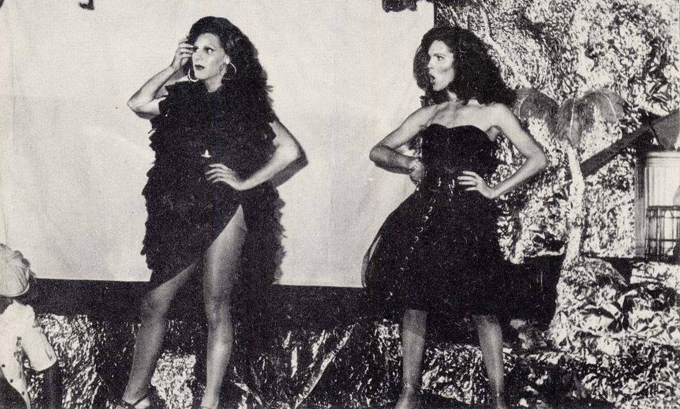 Jennifer Garcia as "Anita" & Rena Del Rio (Rene Zequeira) as "Maria" do the "Boy Love" number in Wild Side Story, as released by image creator Lars Jacob ProdPlace: Climax, 12001 NW 27th Ave., Miami, Florida